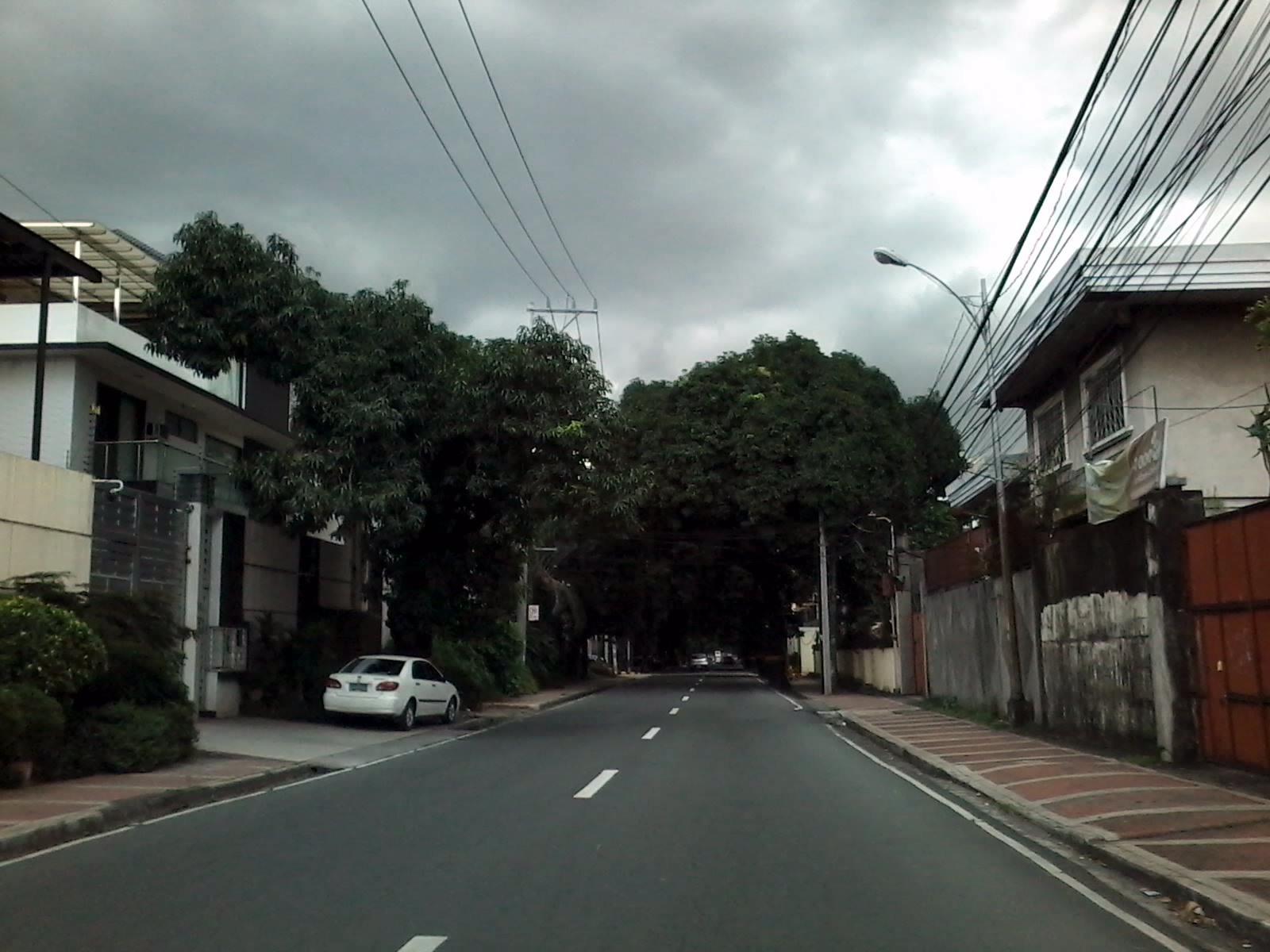 Gilmore Avenue, a major thoroughfare in New Manila, Quezon City, Philippines.